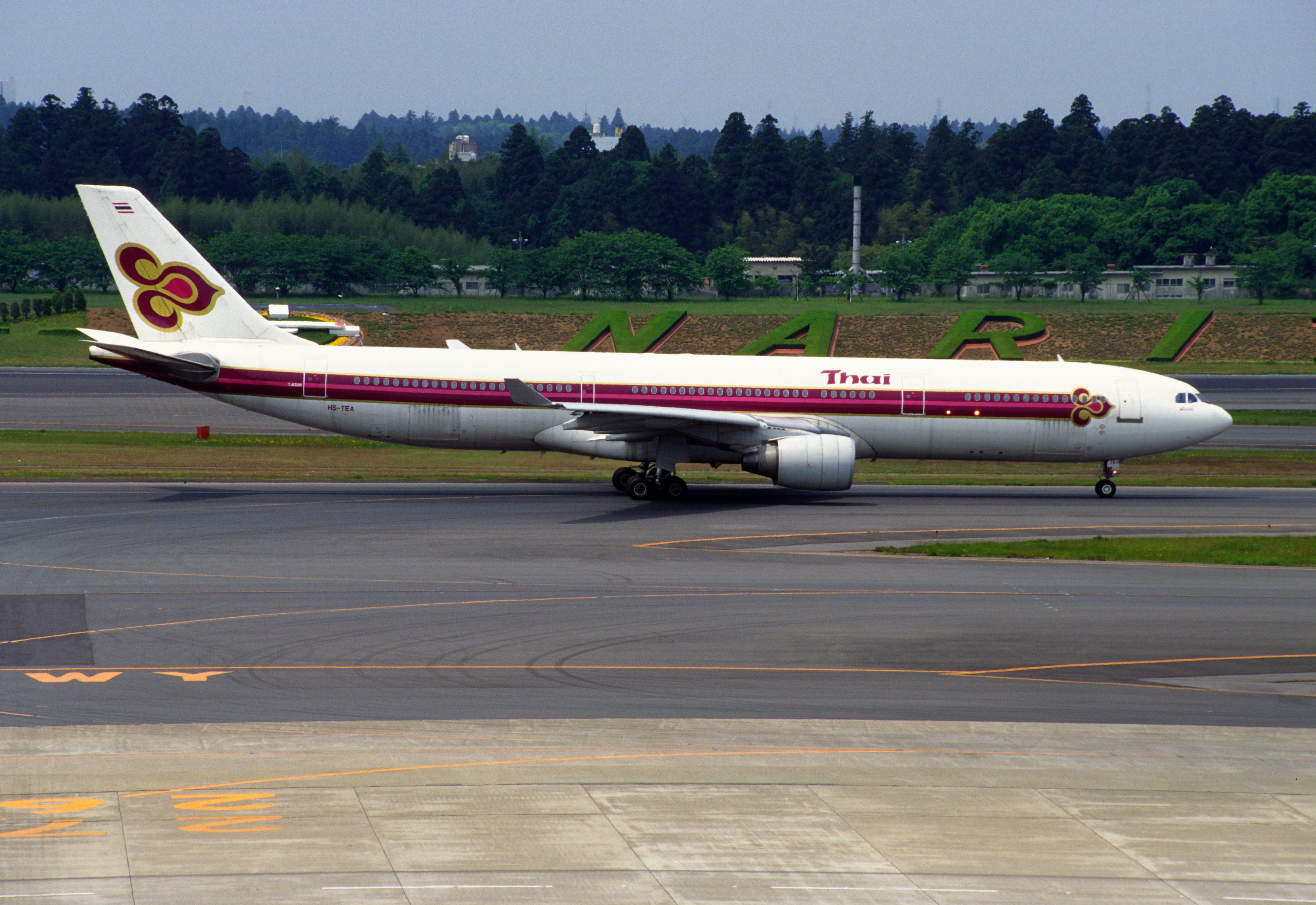 THAI AIRWAYS INTERNATIONAL Airbus A330-321 (HS-TEA/050)